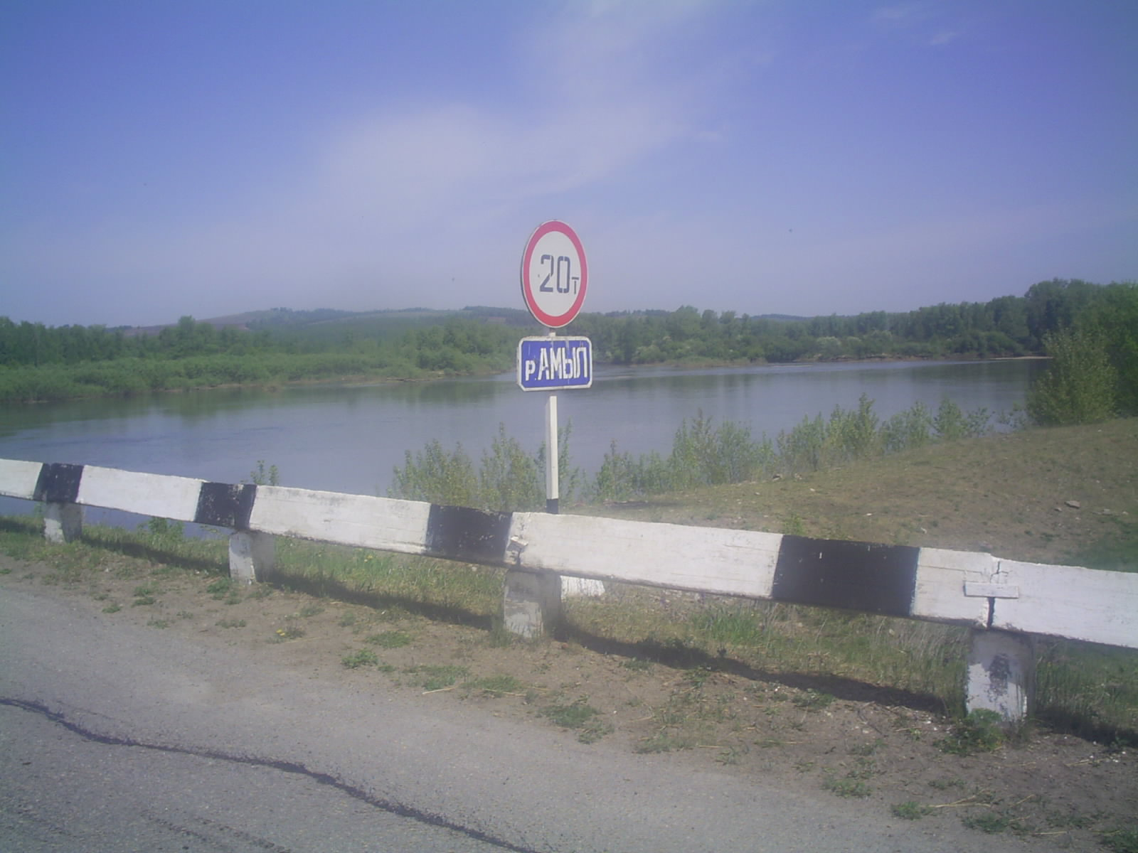 Amyl River